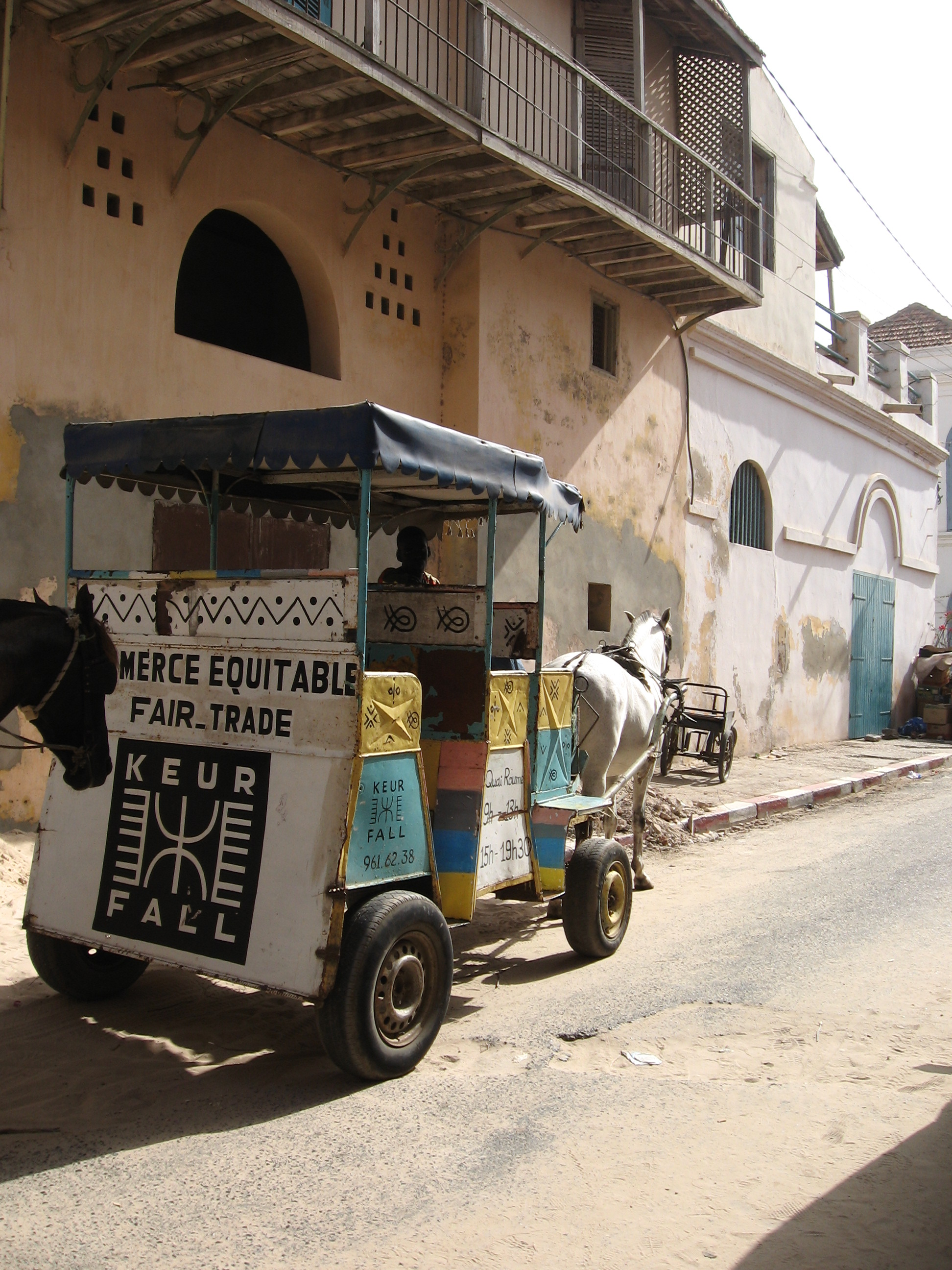 Saint Louis, Senegal Horse drawn tourist cart and colonial arcitecture in the old city